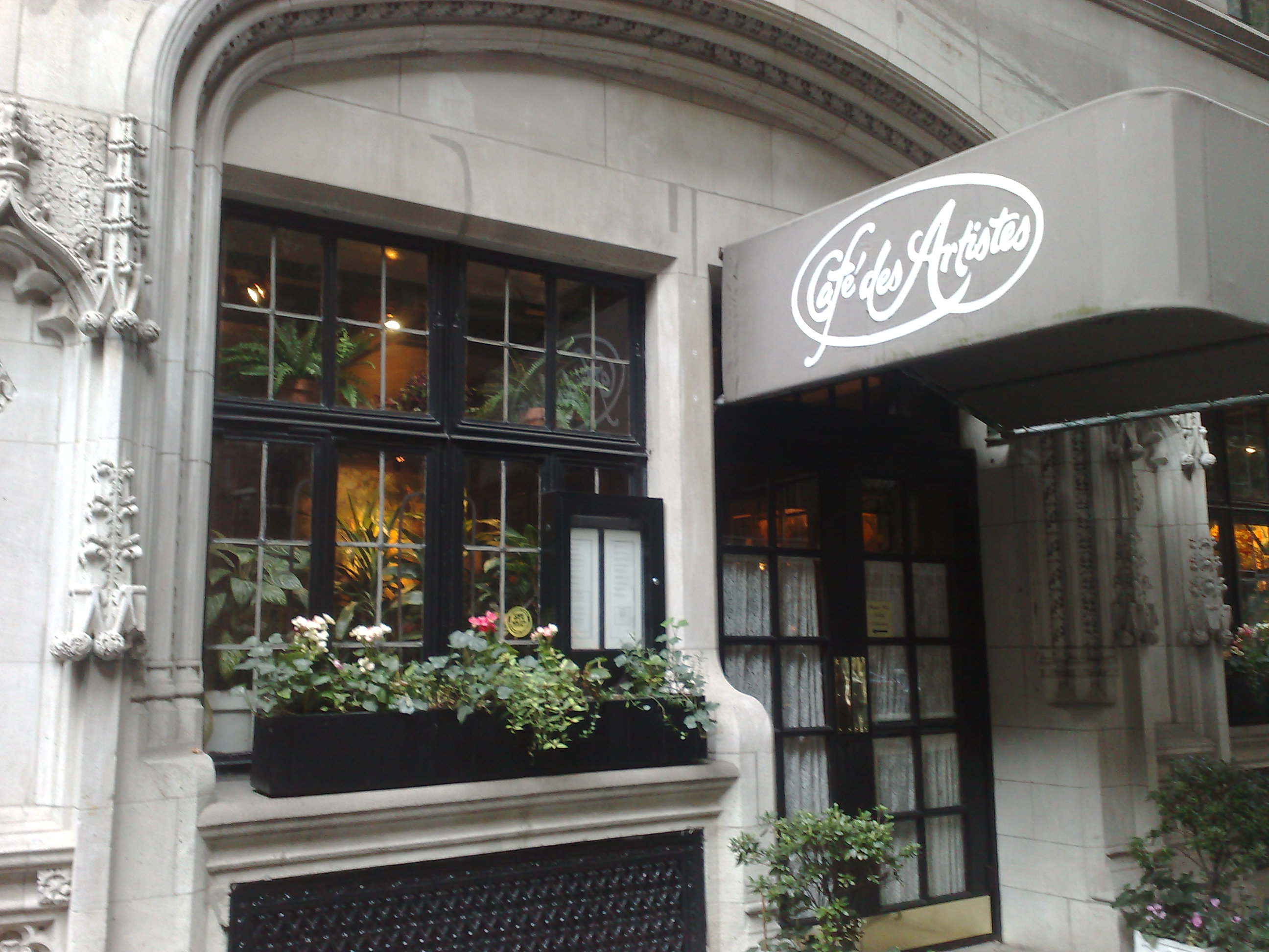 This photo is of Wikis Take Manhattan goal code A22, Café des Artistes.